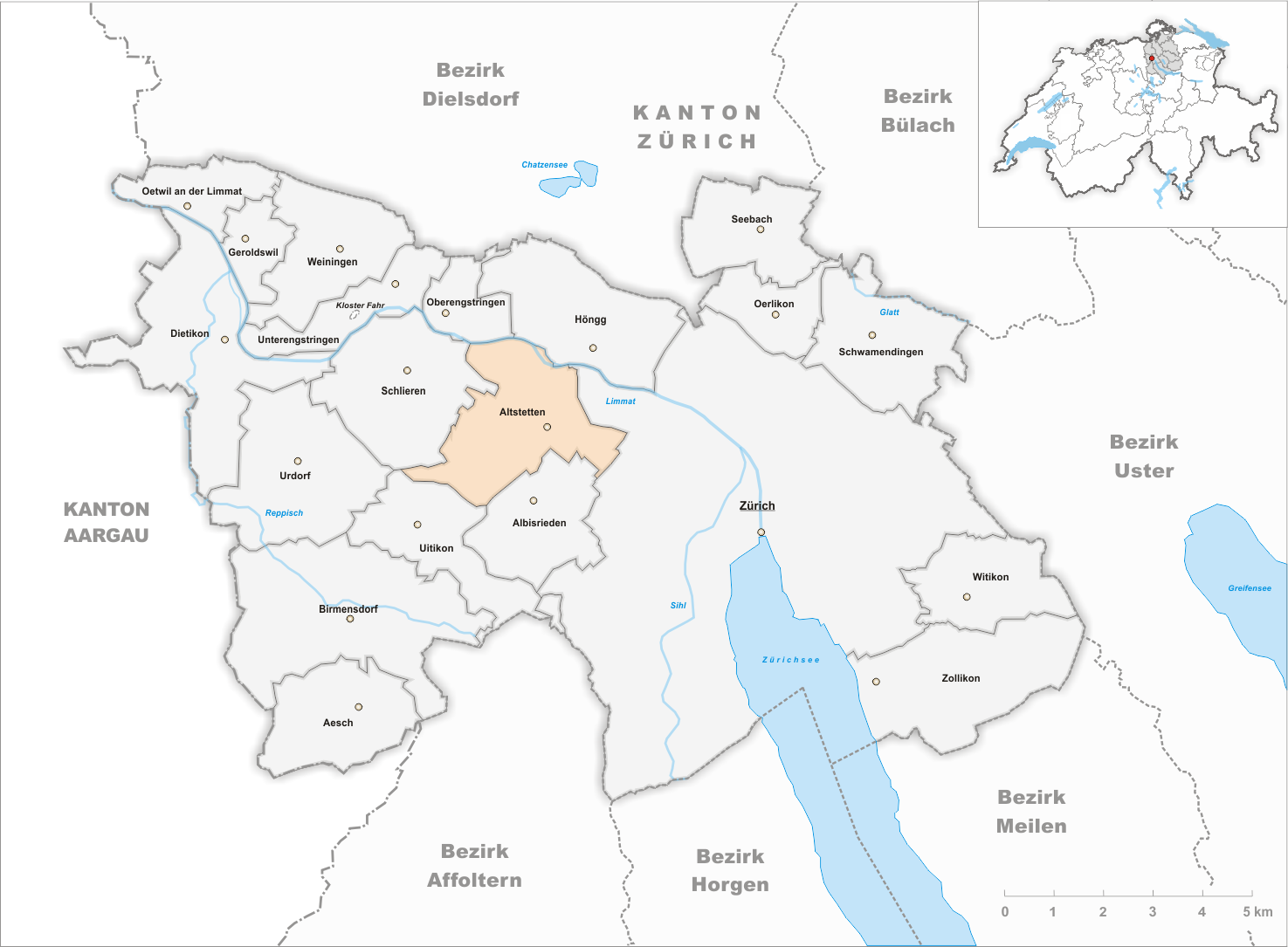 Municipality Altstetten